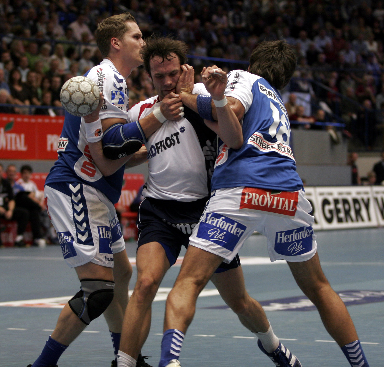 Oliver Köhrmann is stopped by Sebastian Preiß and Tamas Mocsai in the Lipperlandhalle during the game TBV vers. Wilhelmshavener HV on October 13th, 2007